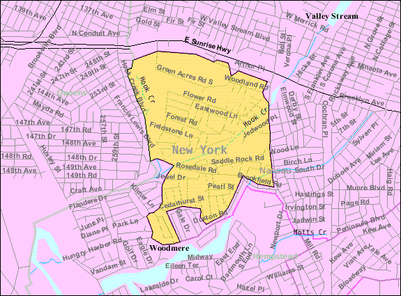 U.S. Census 2000 reference map for South Valley Stream, New York